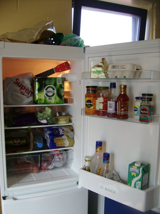 A typical fridge from a fridge-freezer superstack unit.